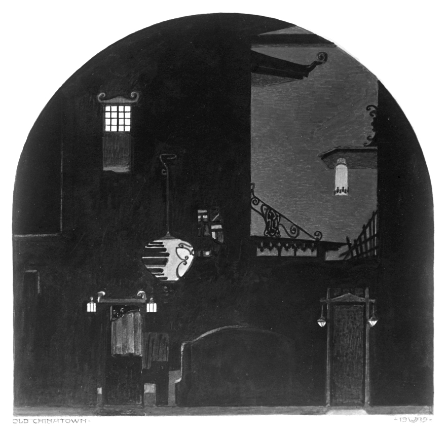 Stage setting designed by Joseph Urban for the Ziegfeld Follies 1919, published as part of an article on Urban set designs starting at page 15 in the November 1919 Shadowland